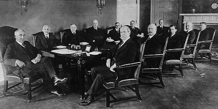 Harding's first meeting with his cabinet. Photo is dated from 1921 and may also be found in the library of Congress.